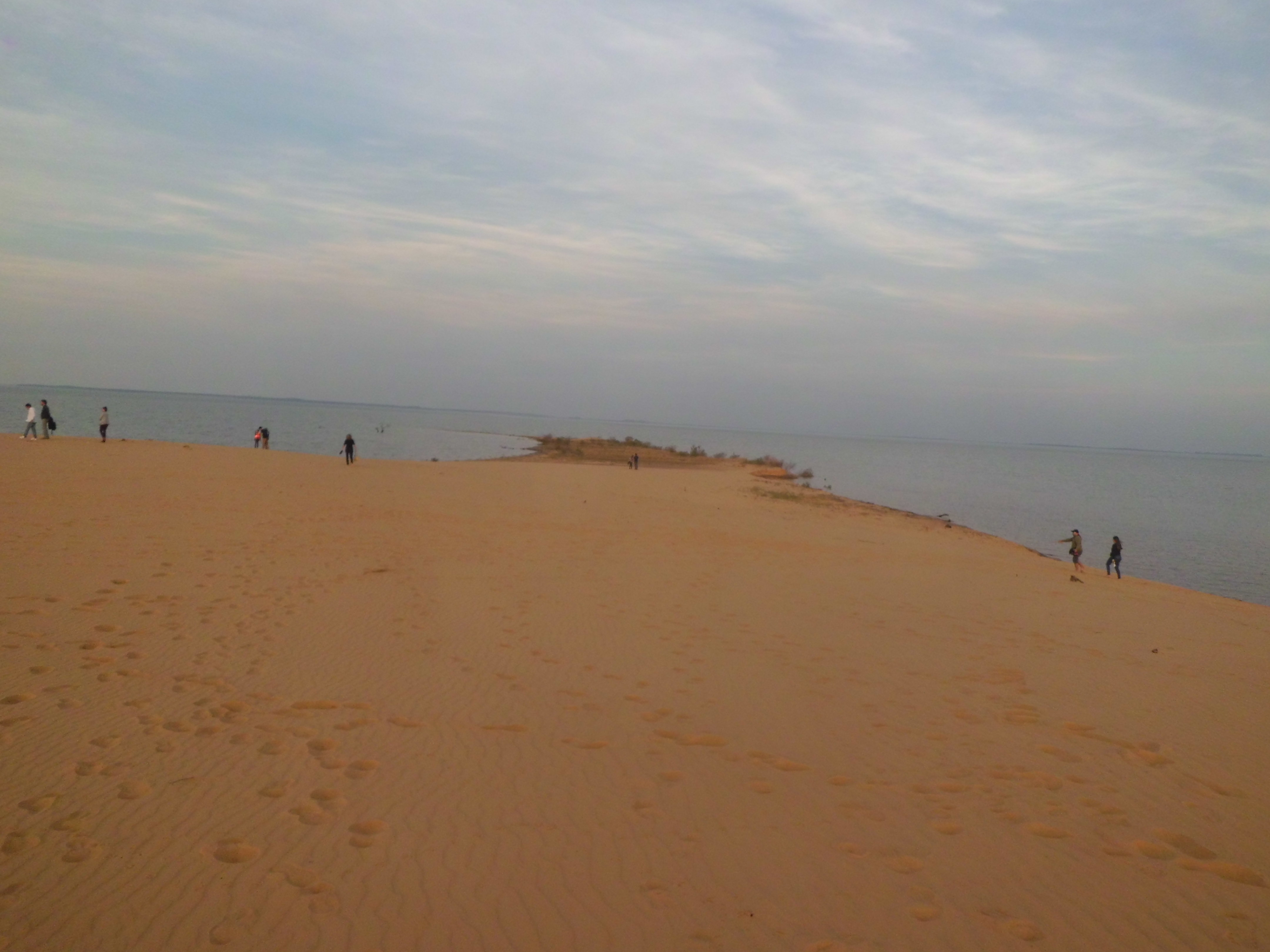 Dunes in San Cosme y Damian, Paraguay.